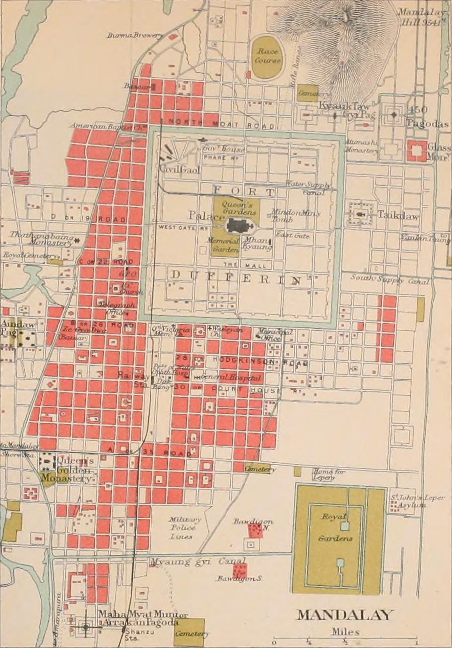 Identifier: handbooktravelle00john Title: A handbook for travellers in India, Burma, and Ceylon . Year: 1911 (1910s) Authors: John Murray (Firm) Subjects: India -- Guidebooks Burma -- Guidebooks Sri Lanka -- Guidebooks Publisher: London : J. Murray Calcutta : Thacker, Spink, & Co. Text Appearing Before Image: ' Text Appearing After Image: LodiIdu John MiUTAv; AlbdUArlo Street THE PALACE, MANDALAY.